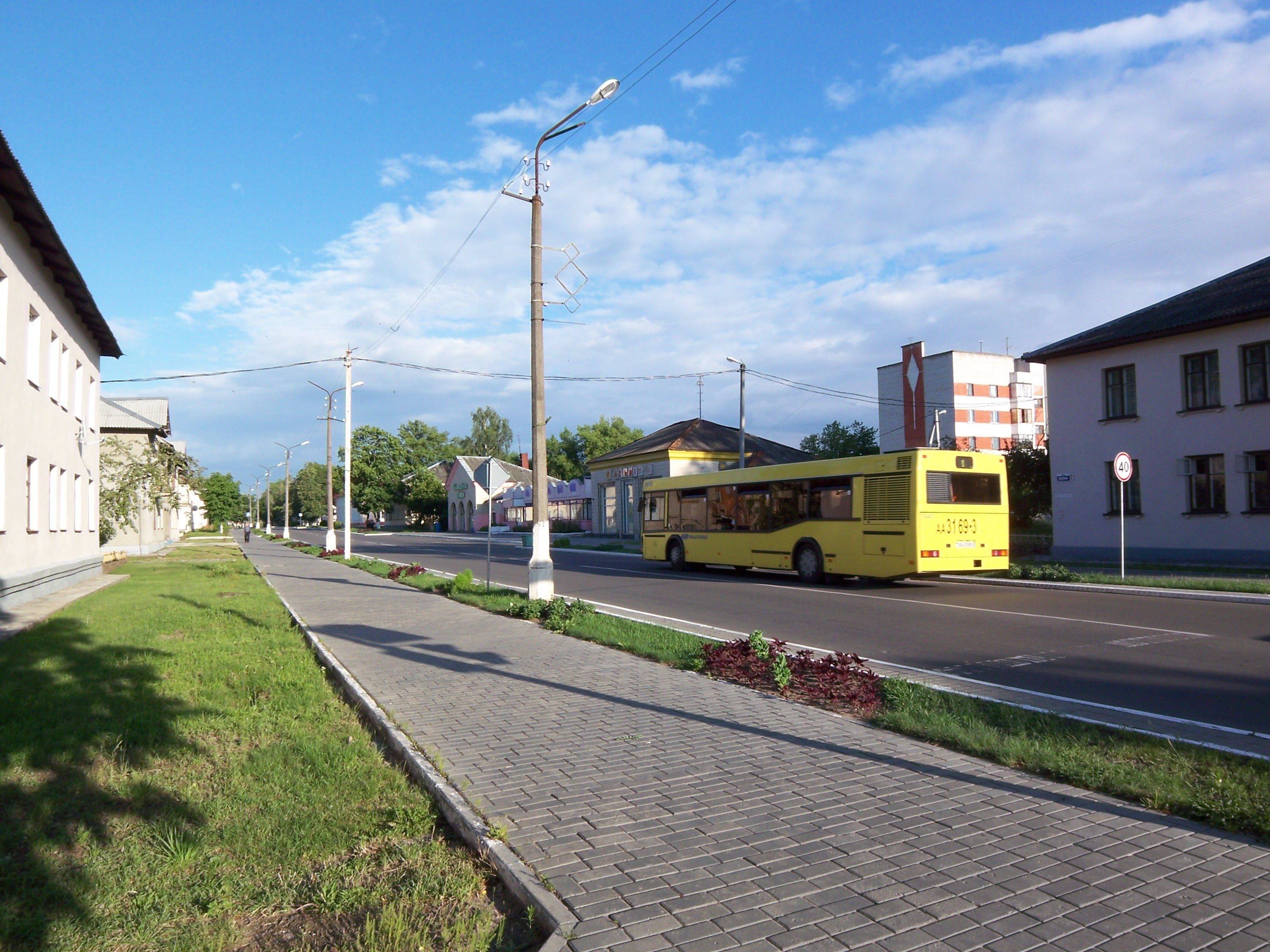 Bus on a street